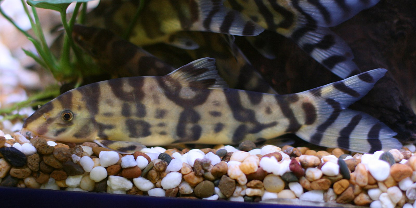 Botia histrionica. Size about 12cm SL.